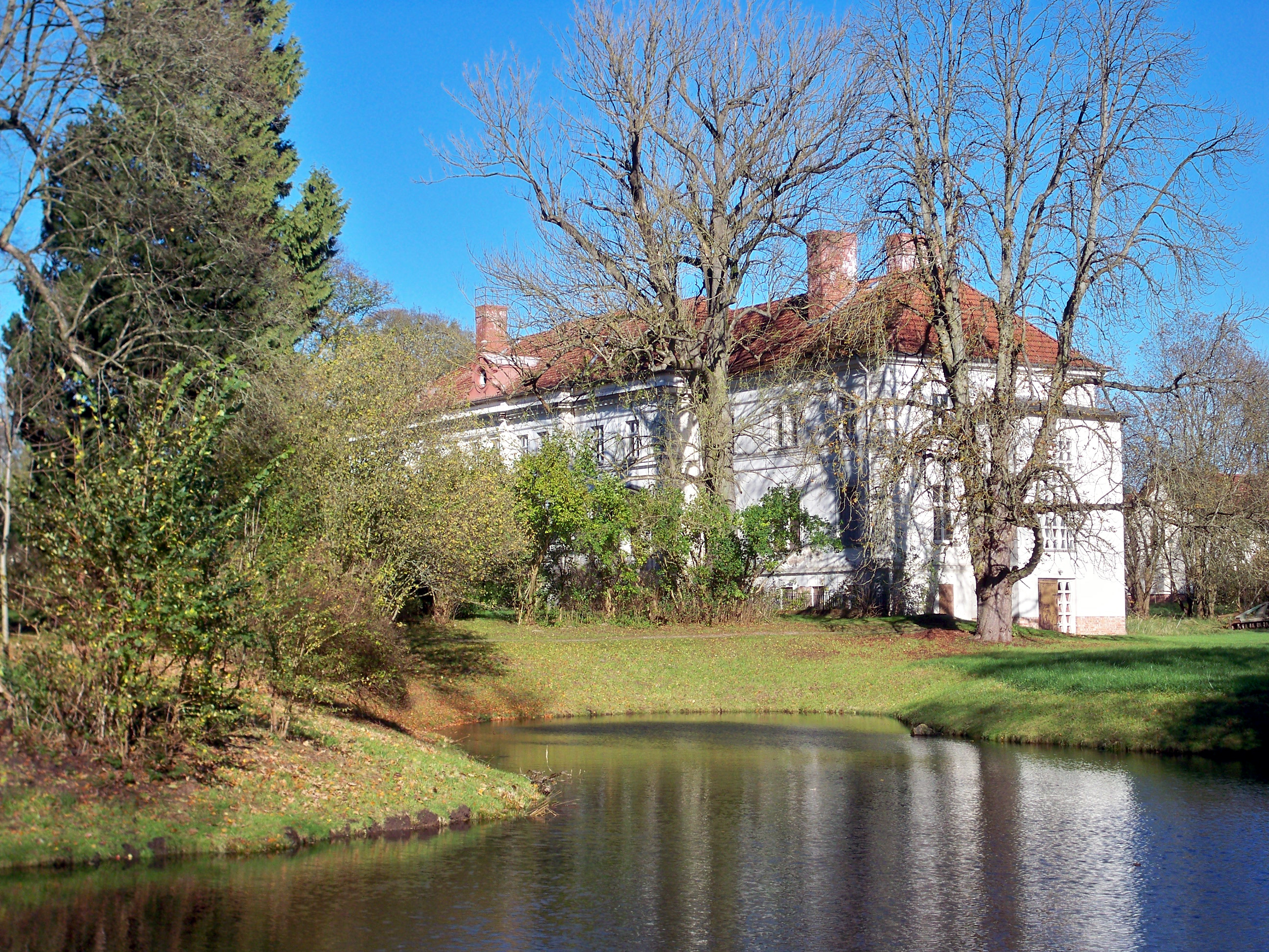 Weteritz, Gardelegen, Saxony-Anhalt, castle with park